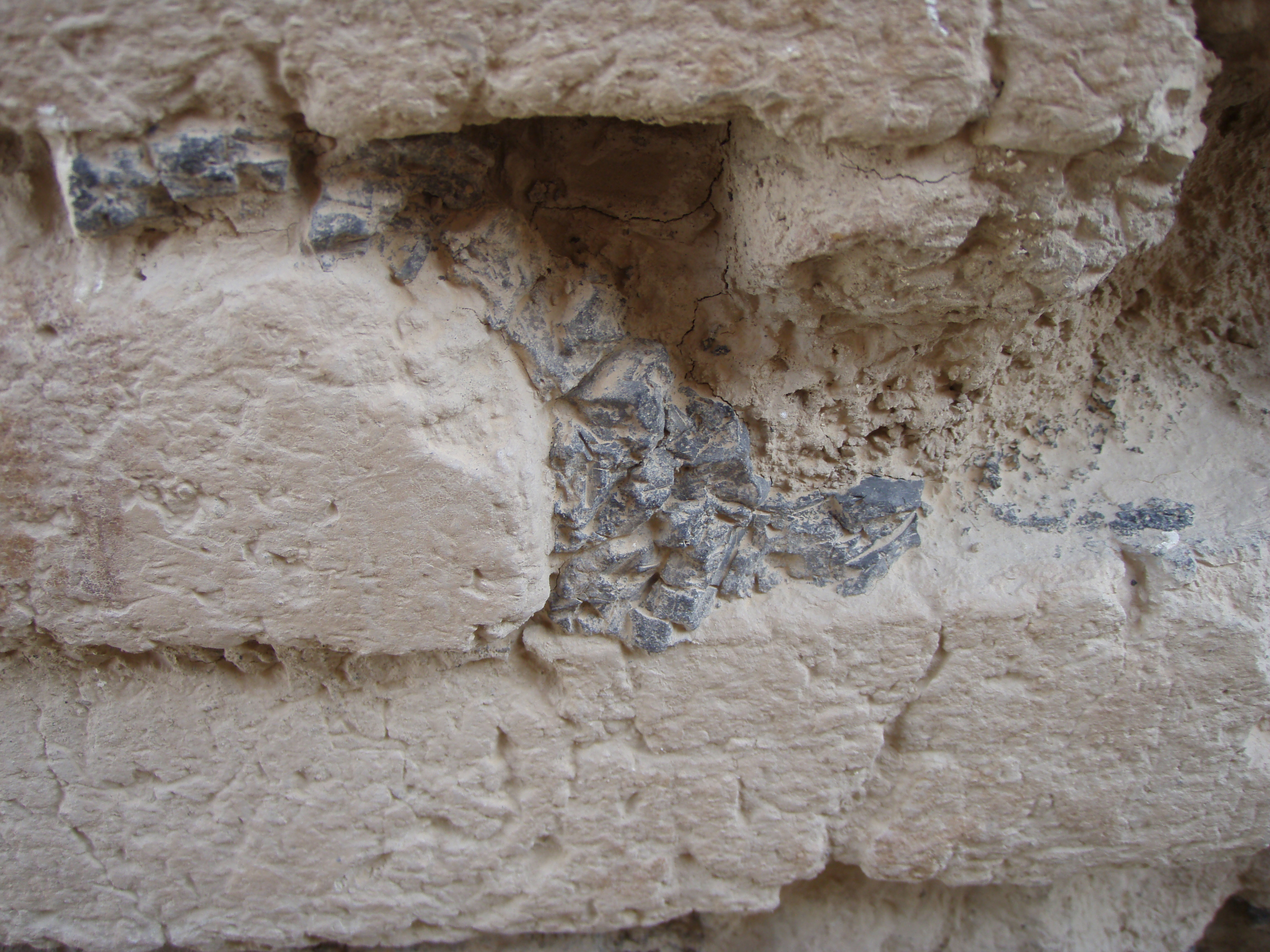 Petroleum (tar) based "Mortar" used in the bricklaying in the original building of the city of Ur, Iraq